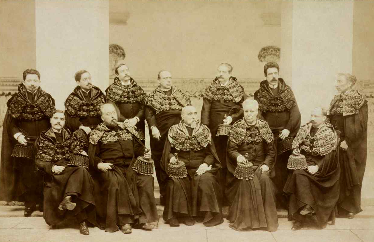 Professors of the University of Coimbra, in 1899. Standing, on the far left, is Professor Afonso Costa.